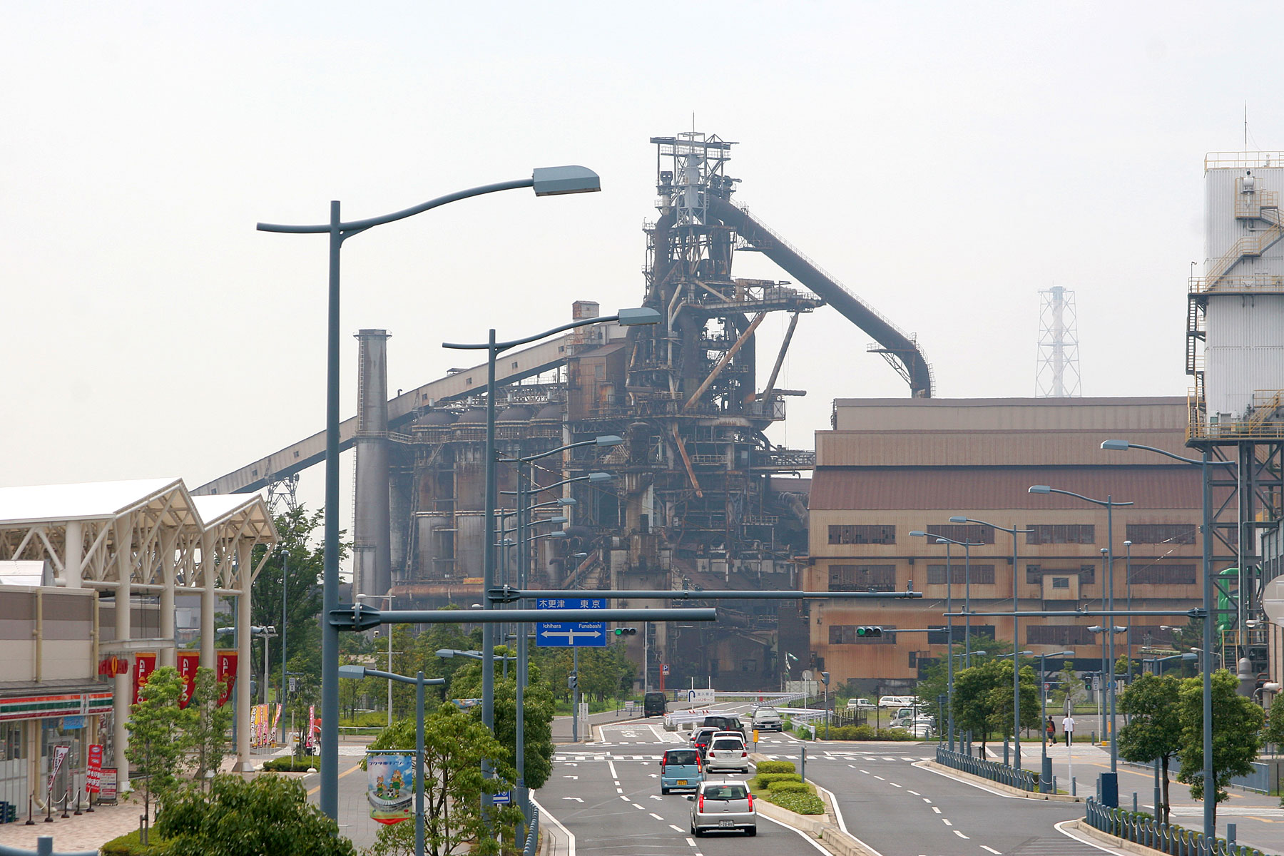 JFE 5th Blast Furnace.